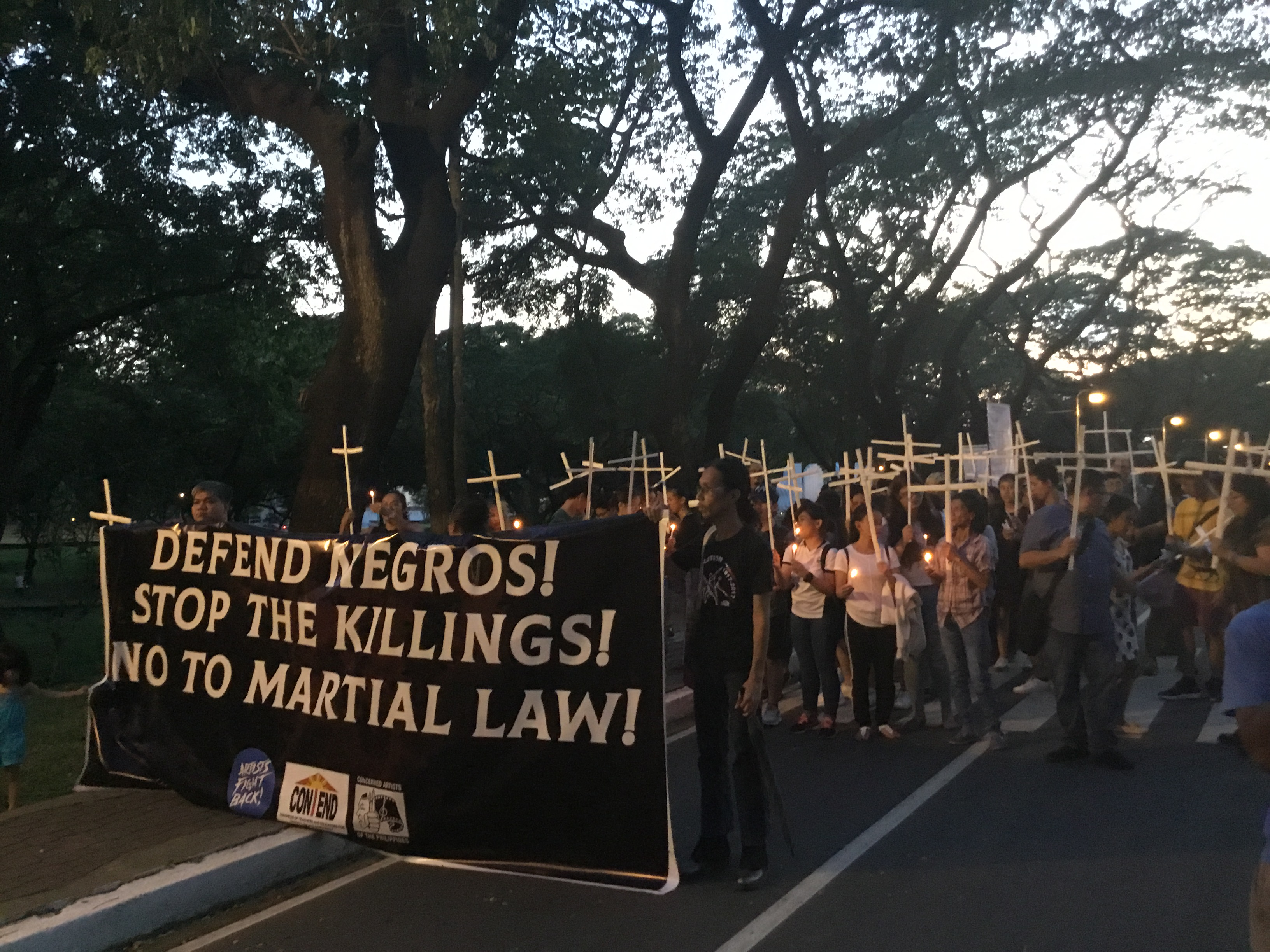 Protest Rally at UP Diliman Condemning Negros Killings August 16, 2019